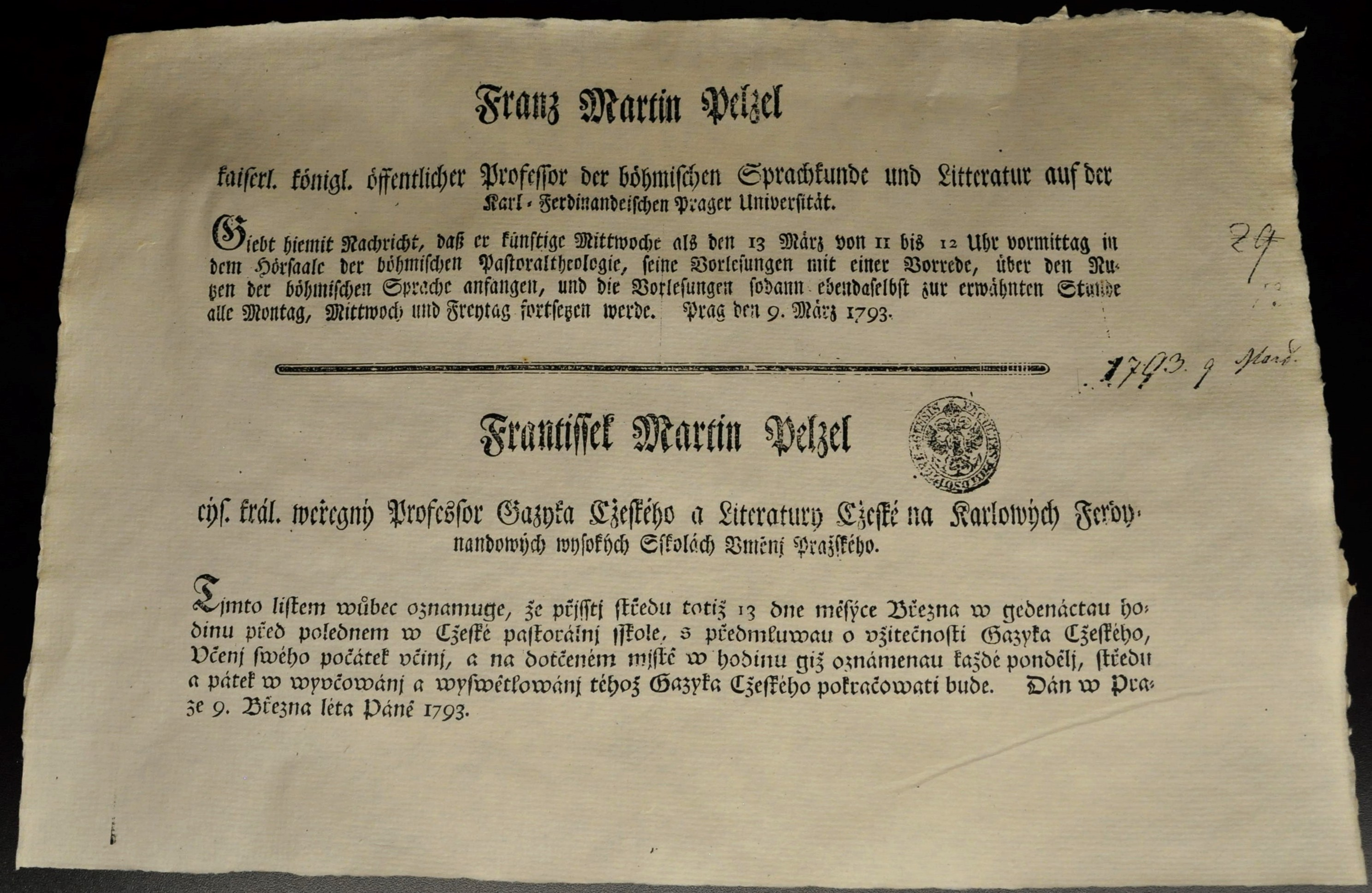 Announcement of the first classes about Czech language held in Czech language by professor F. M. Pelzel at the University of Prague in 1793.